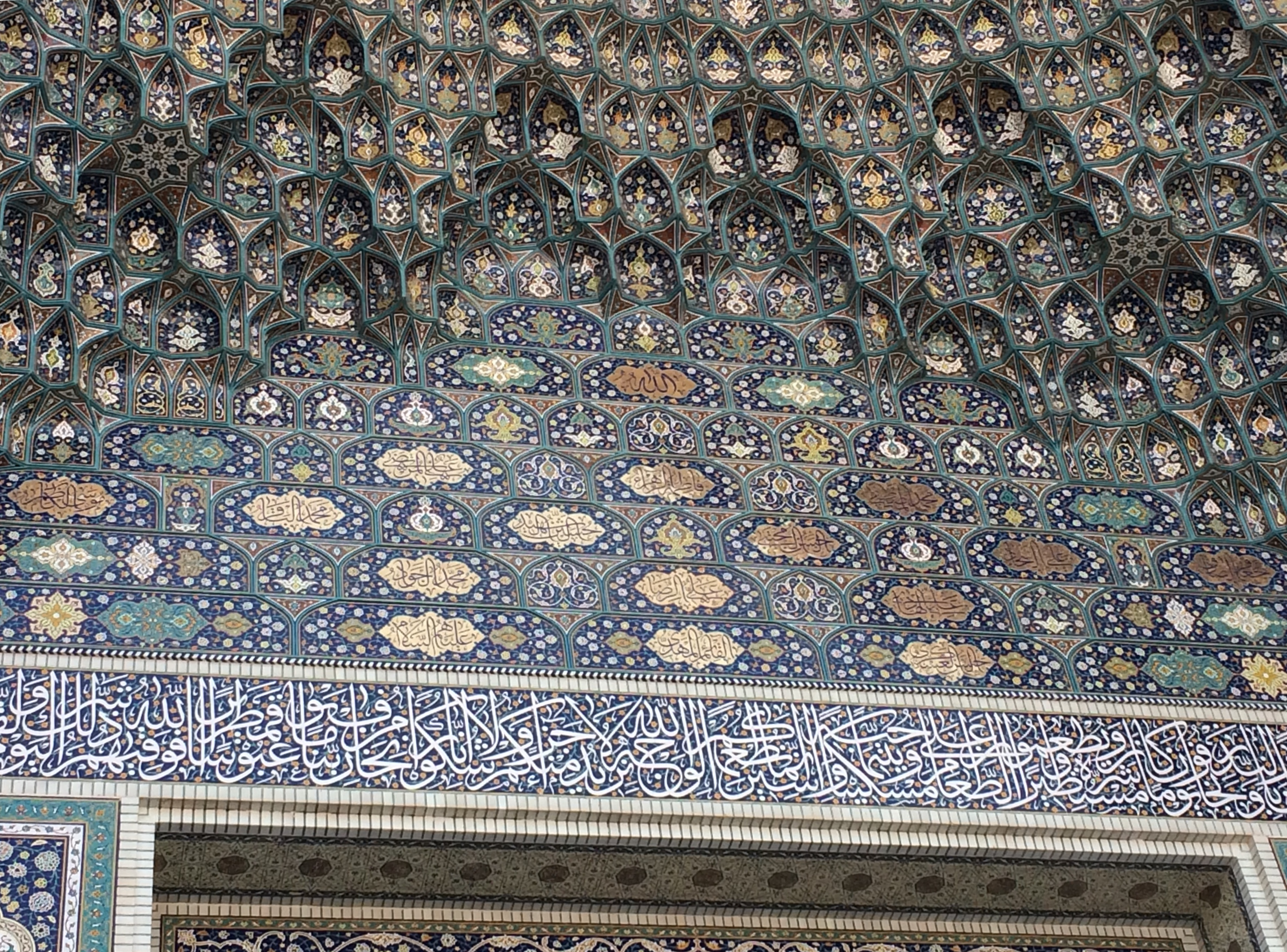 The names of Allah, Islamic prophet Muhammed, Fatima Zahra and the twelve Shia Imams in Arabic in the holy shrine complex in Mashhad